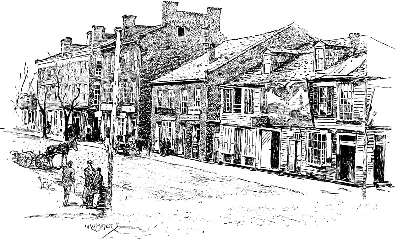 The scene of the conflict between the Brooks and Baxter adherents in front of the Anthony House, Little Rock